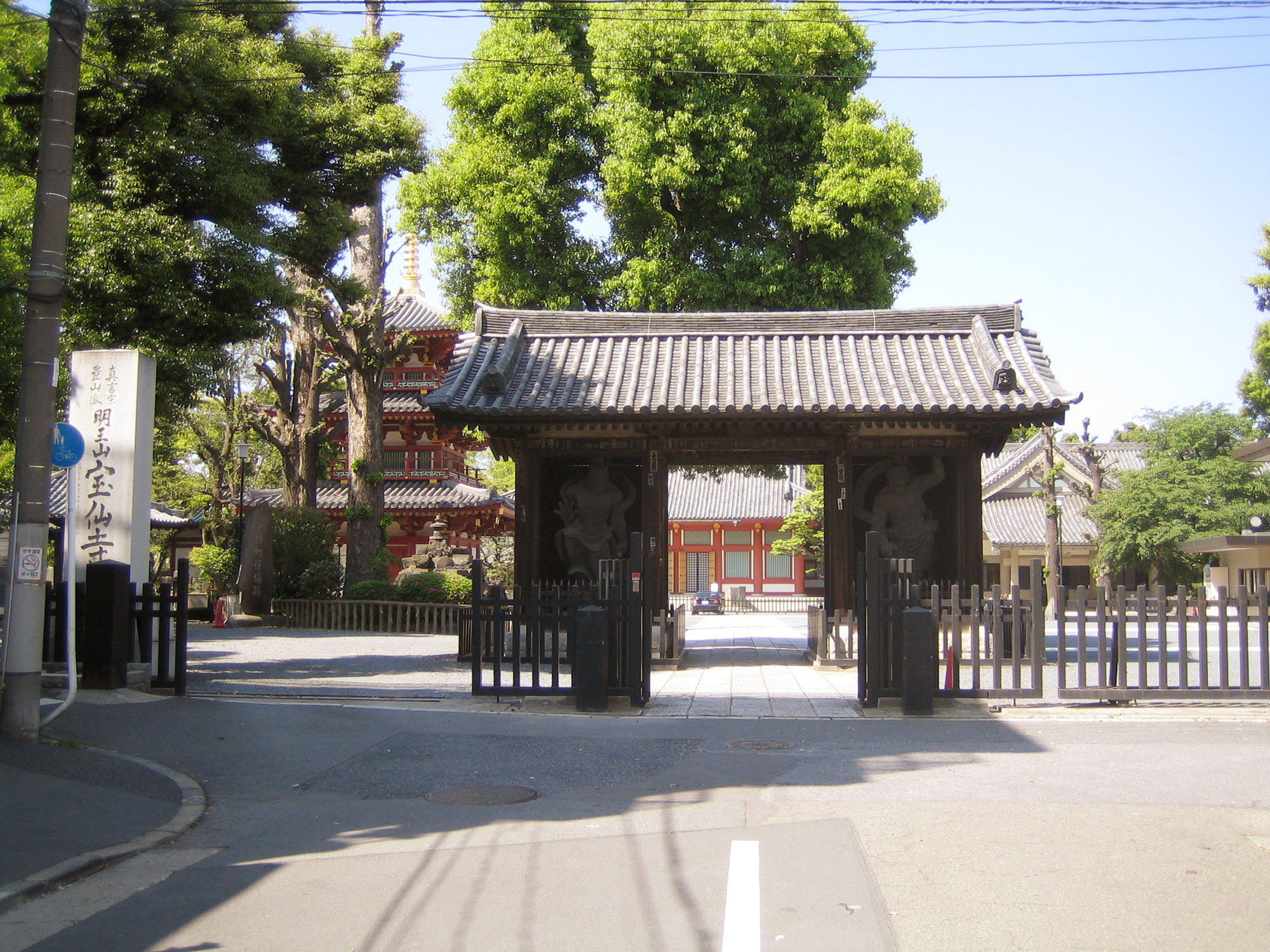 "Niō-mon" gate of Hōsen-ji temple in Nakano, Tokyo, Japan